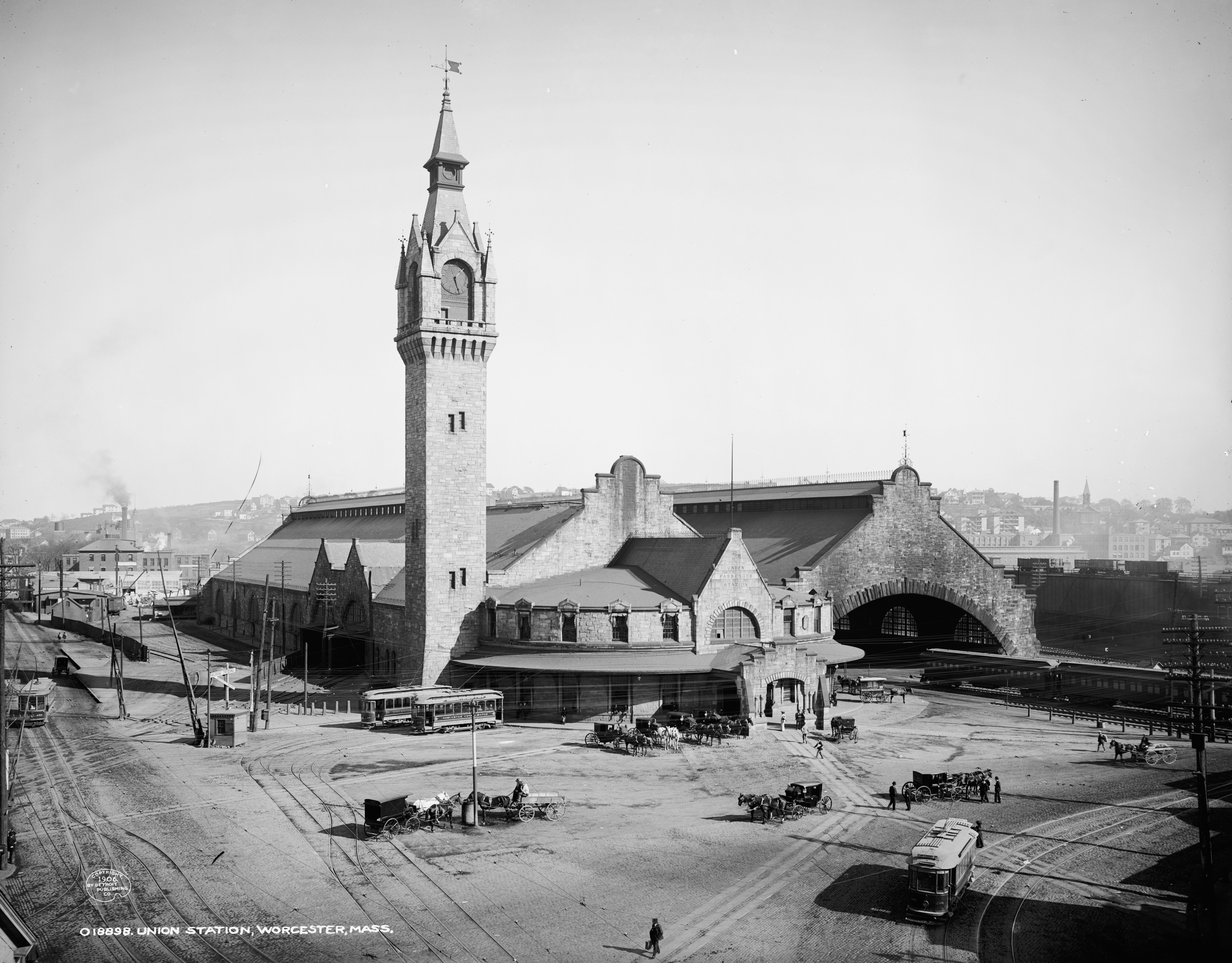 1875-built Union Station in Worcester, Massachusetts, photographed in 1906. The station was torn down and replaced with the modern station 40 years later. Medium: 1 negative : glass ; 8 x 10 in. Reproduction Number: LC-D4-18898 (b&w glass neg.) Call Number: LC-D4-18898 [P&P] Repository: Library of Congress Prints and Photographs Division Washington, D.C. 20540 USA Notes: Corresponding glass transparency (with same series code) available on videodisc frame 1A-30436. "3118" on negative. Detroit Publishing Co. no. 018898. Gift; State Historical Society of Colorado; 1949.